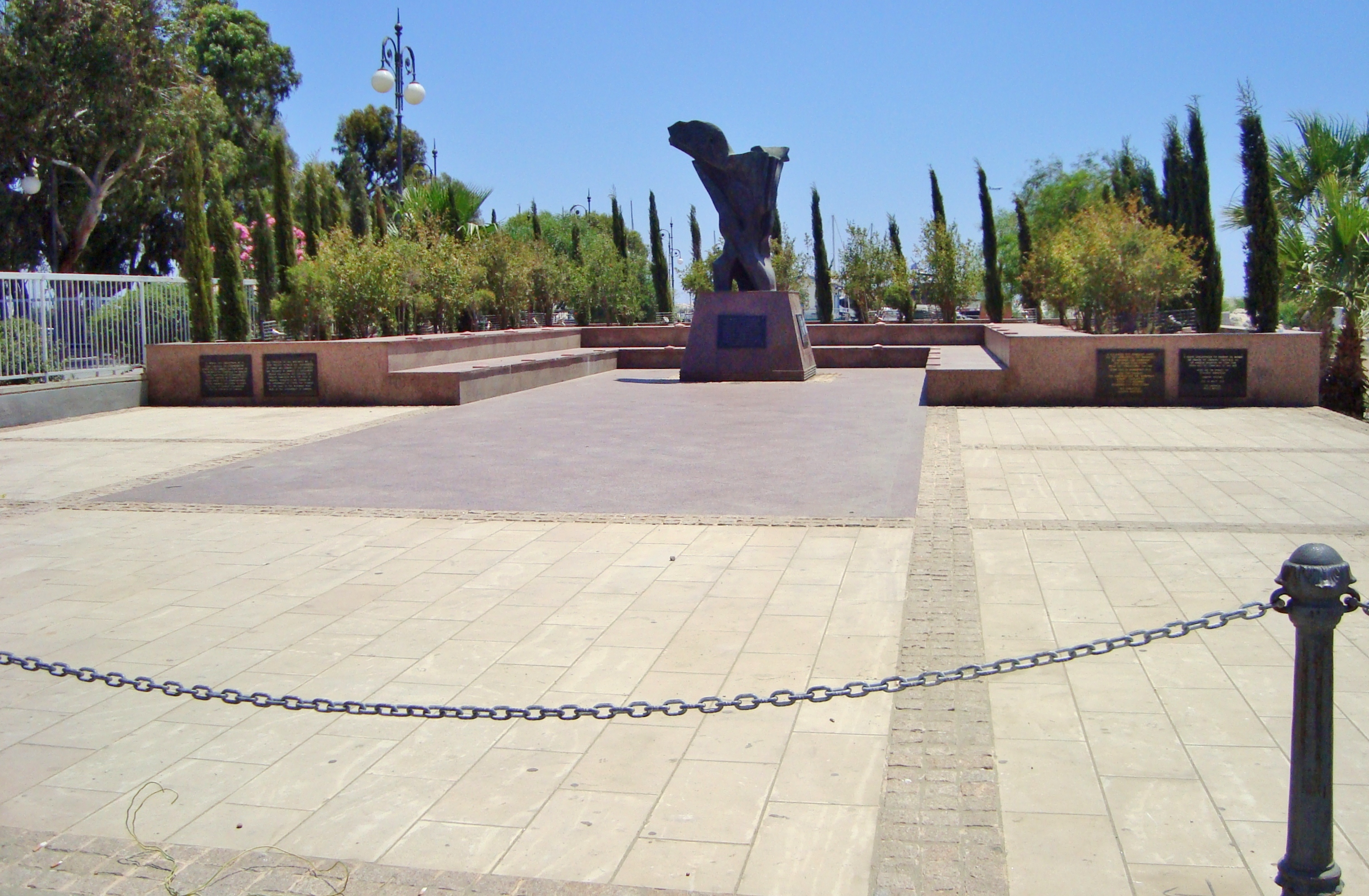 famous Armenian Genocide monument in Larnaca Republic of Cyprus